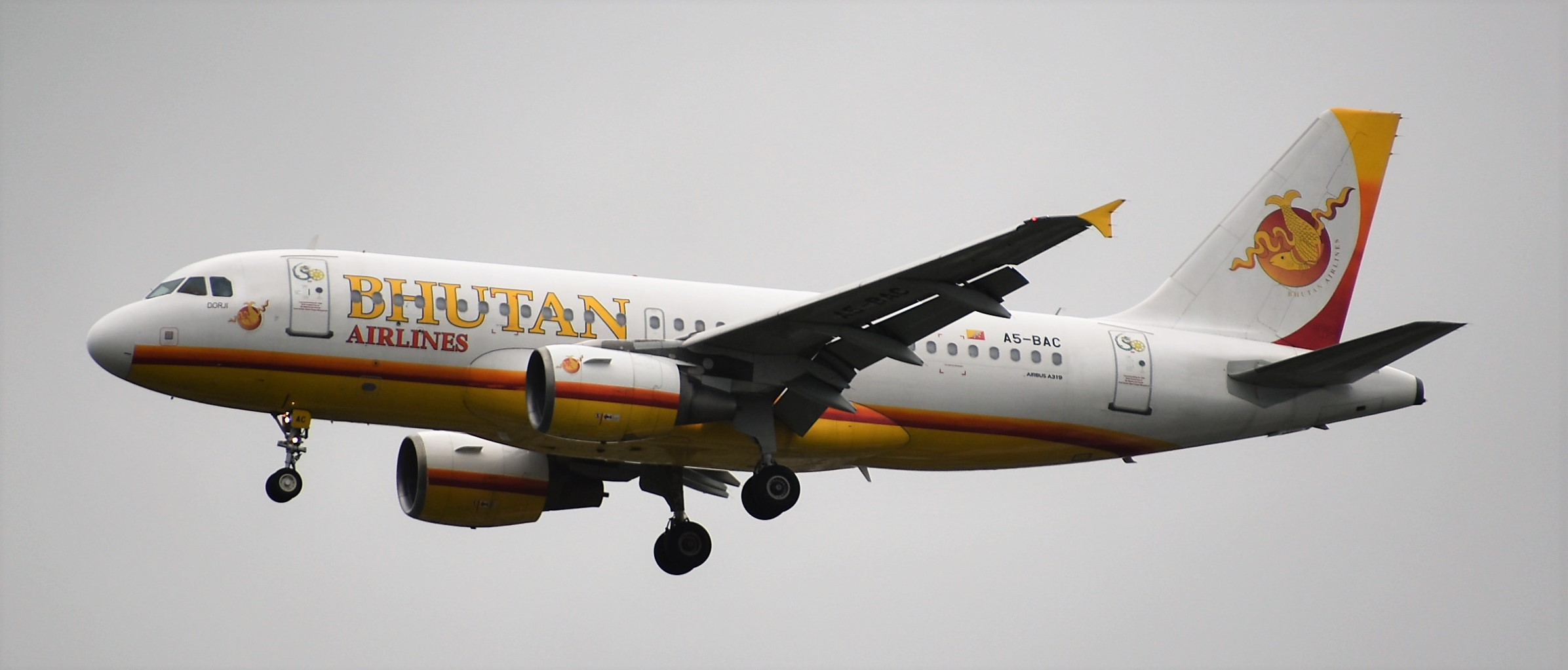 Airbus A319 of Bhutan Airlines on final approach to rwy.19R at Bangkok-BKK,Thailand.